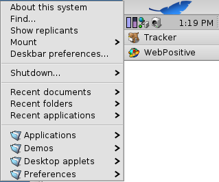 Deskbar of the Haiku operating system with open Deskbar Menu